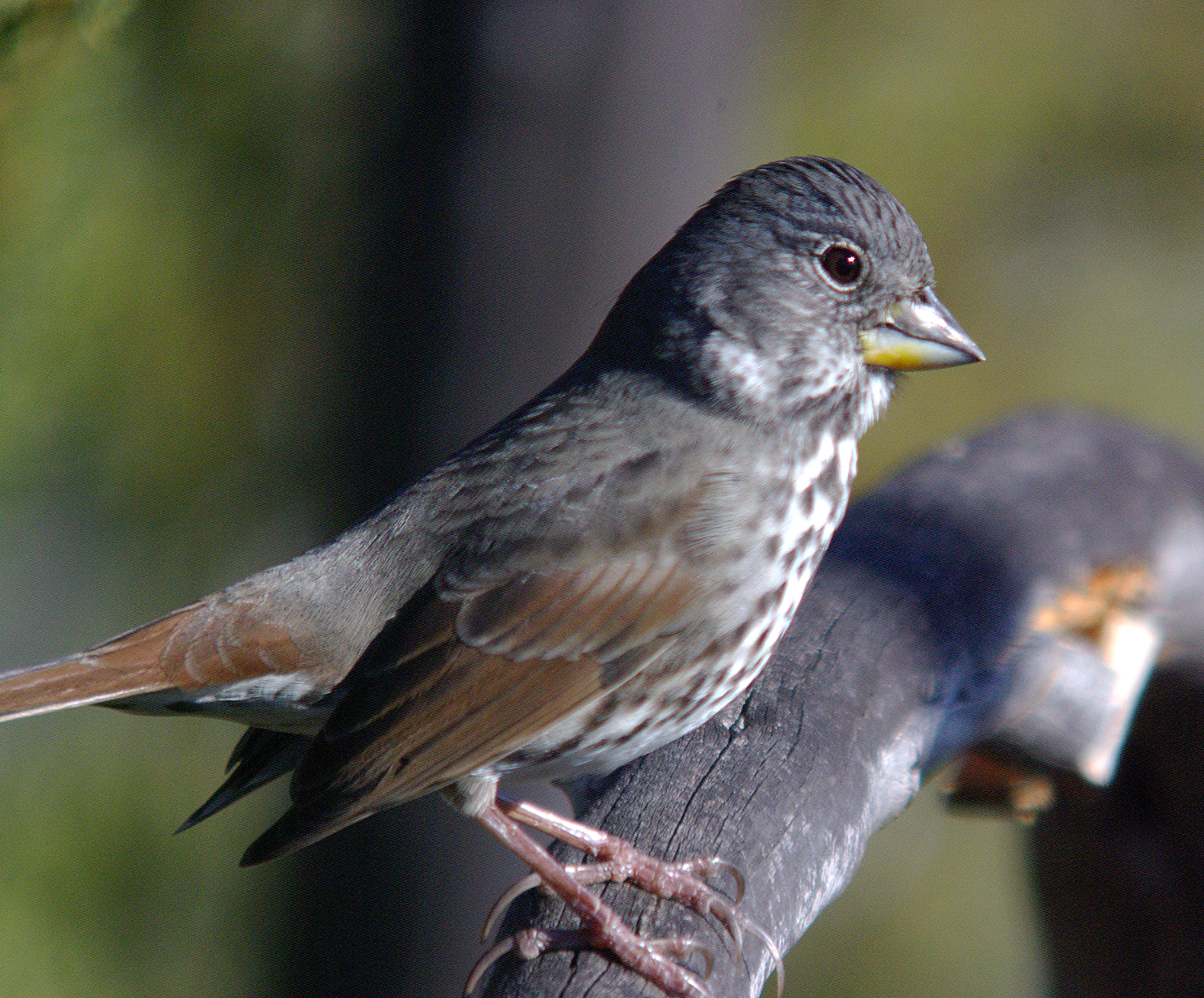 Thick-billed Fox Sparrow Passerella megarhyncha, Cuesta Ridge, San Luis Obispo County, California, USA.